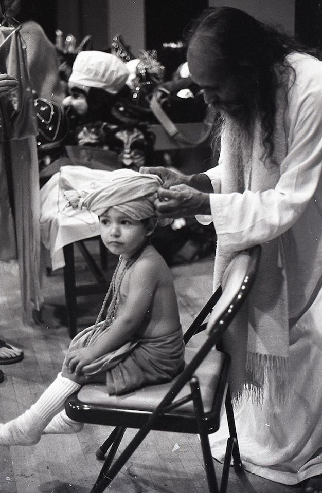 Backstage Ramayana costume preparation